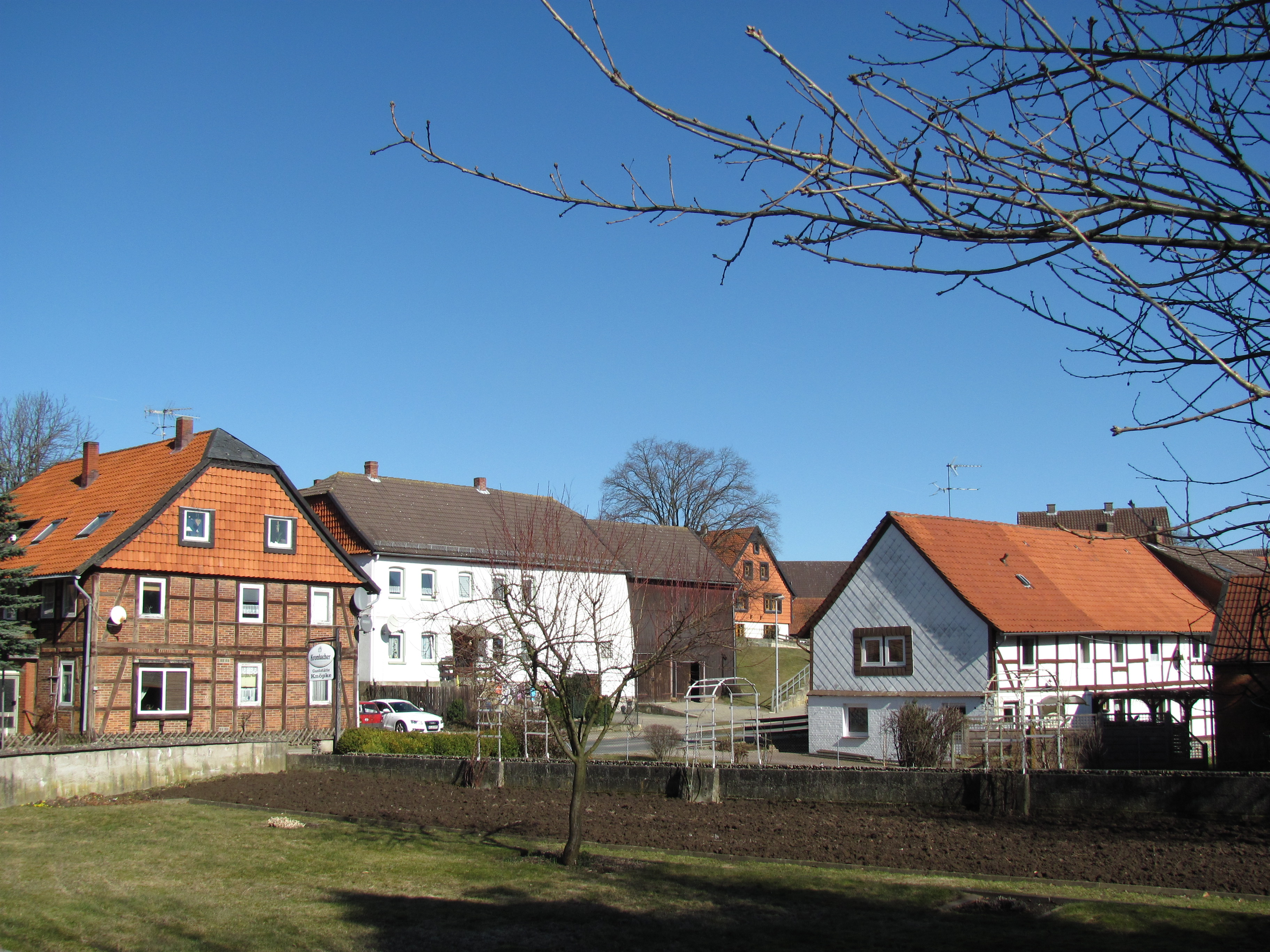 Village center, Holle-Hackenstedt, Lower Saxony, Germany.